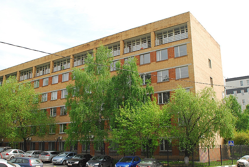 Technology college №14 - Podrazdelenie Dokukina